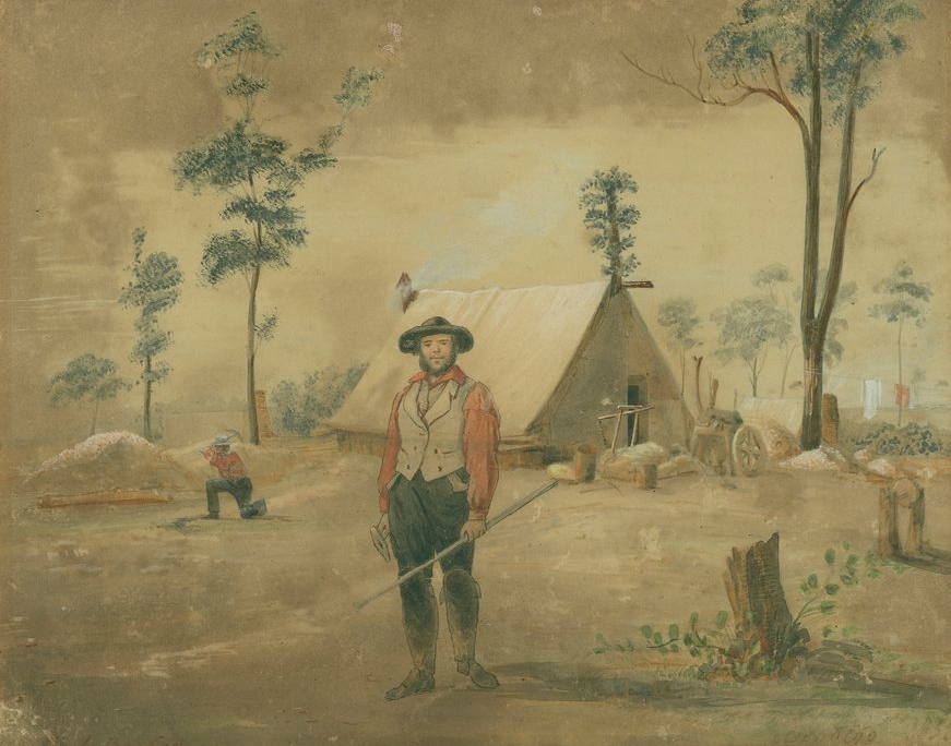 Bendigo, 1853, watercolor, with pen and ink, pencil and opaque white, 18 x 22 cm